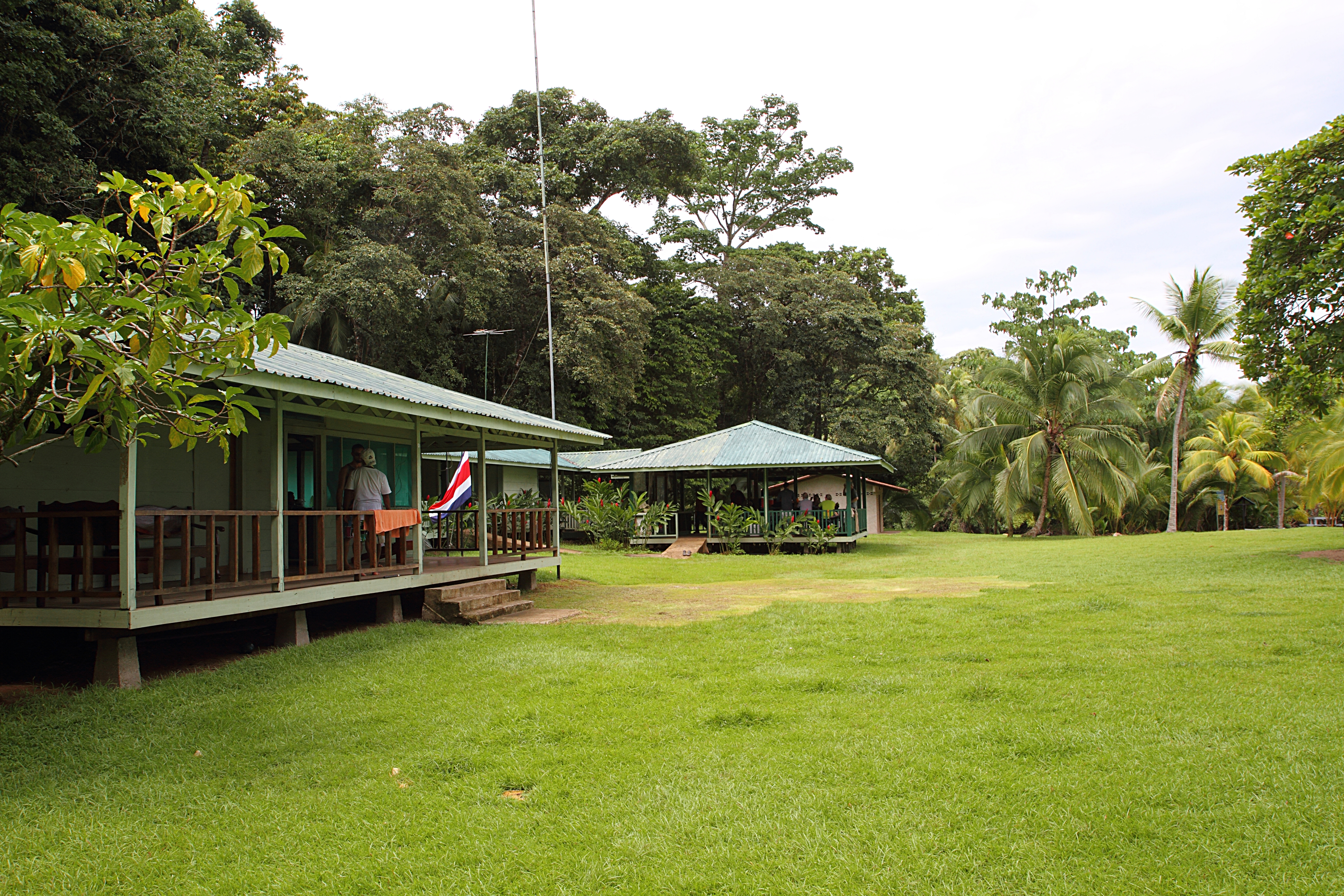 Lodge San Pedrillo in Corcovado National Park